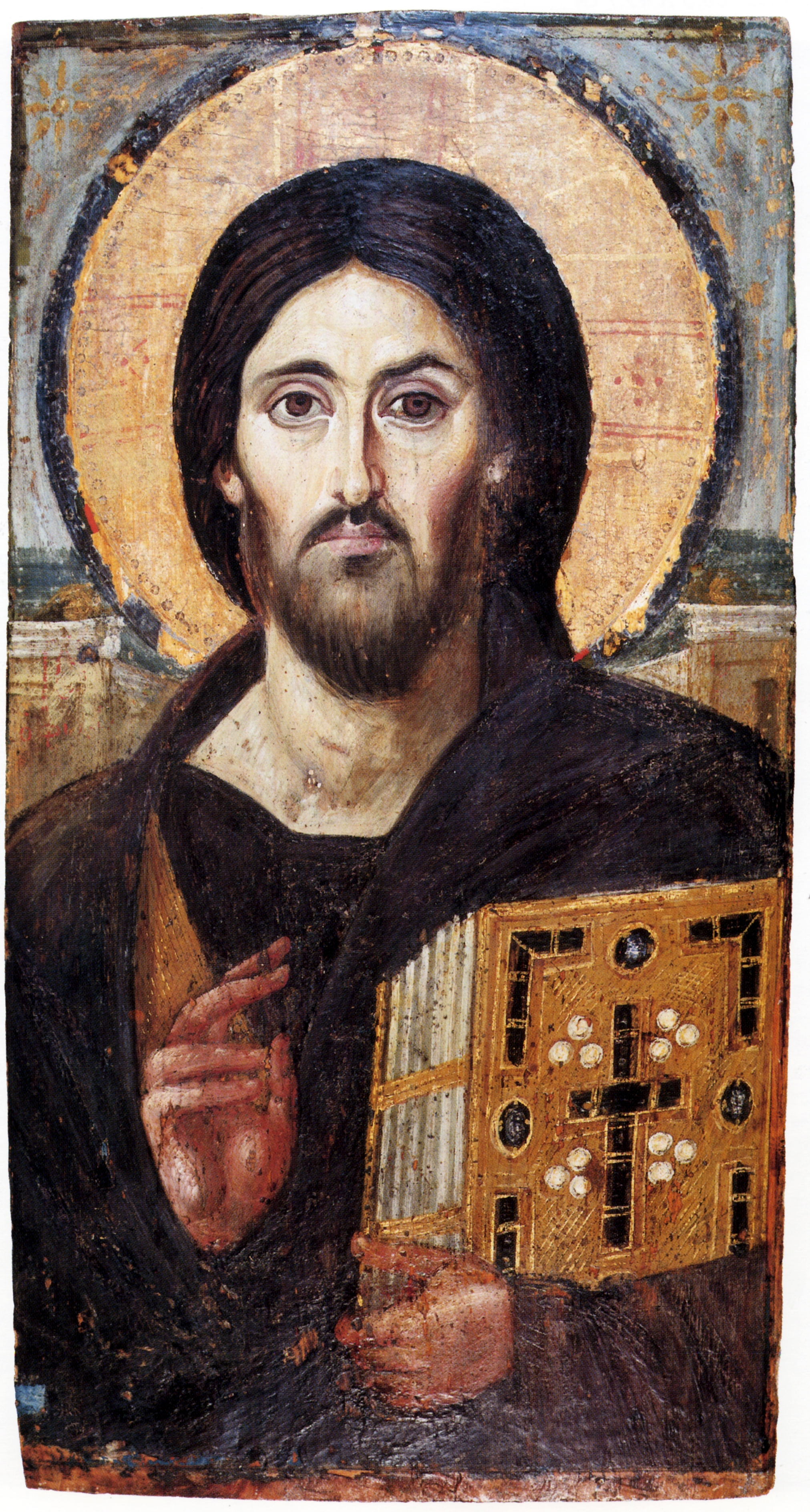 Christ the Saviour (Pantokrator), a 6th-century encaustic icon from Saint Catherine's Monastery, Mount Sinai. NB - slightly cut down - for full size see here